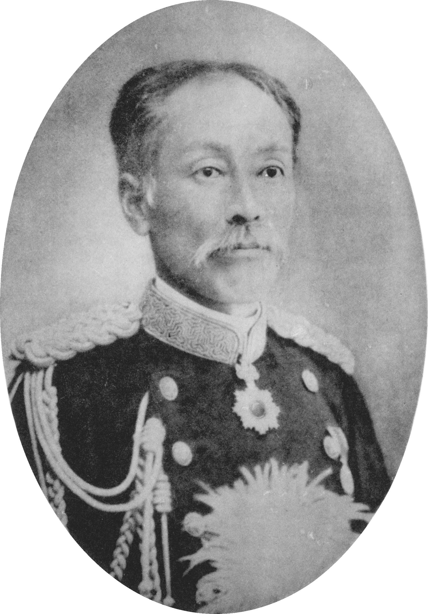 Yamakawa Hiroshi, director of the Higher Normal School.